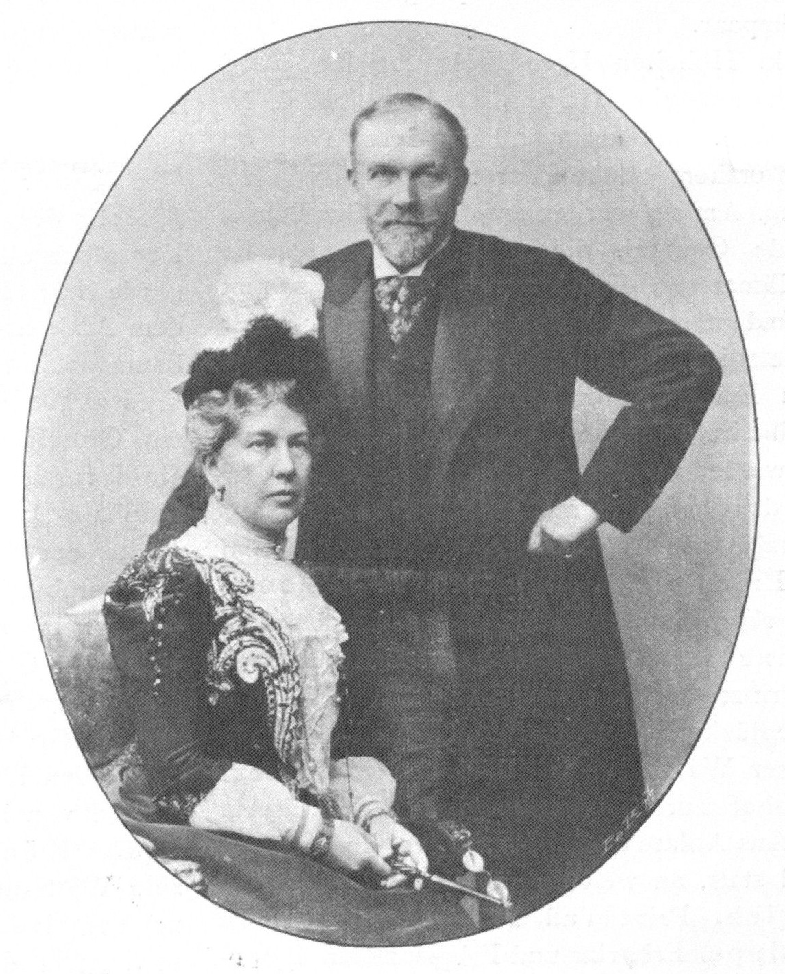 Photo of Philipp zu Eulenburg (1847-1921), Prussian nobleman and diplomat, with his wife Augusta zu Eulenburg-Hertefeld